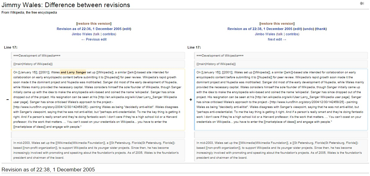 1 December 2005 edit by User:Jimbo Wales to article Jimmy Wales to remove reference to Larry Sanger from history of Wikipedia section.